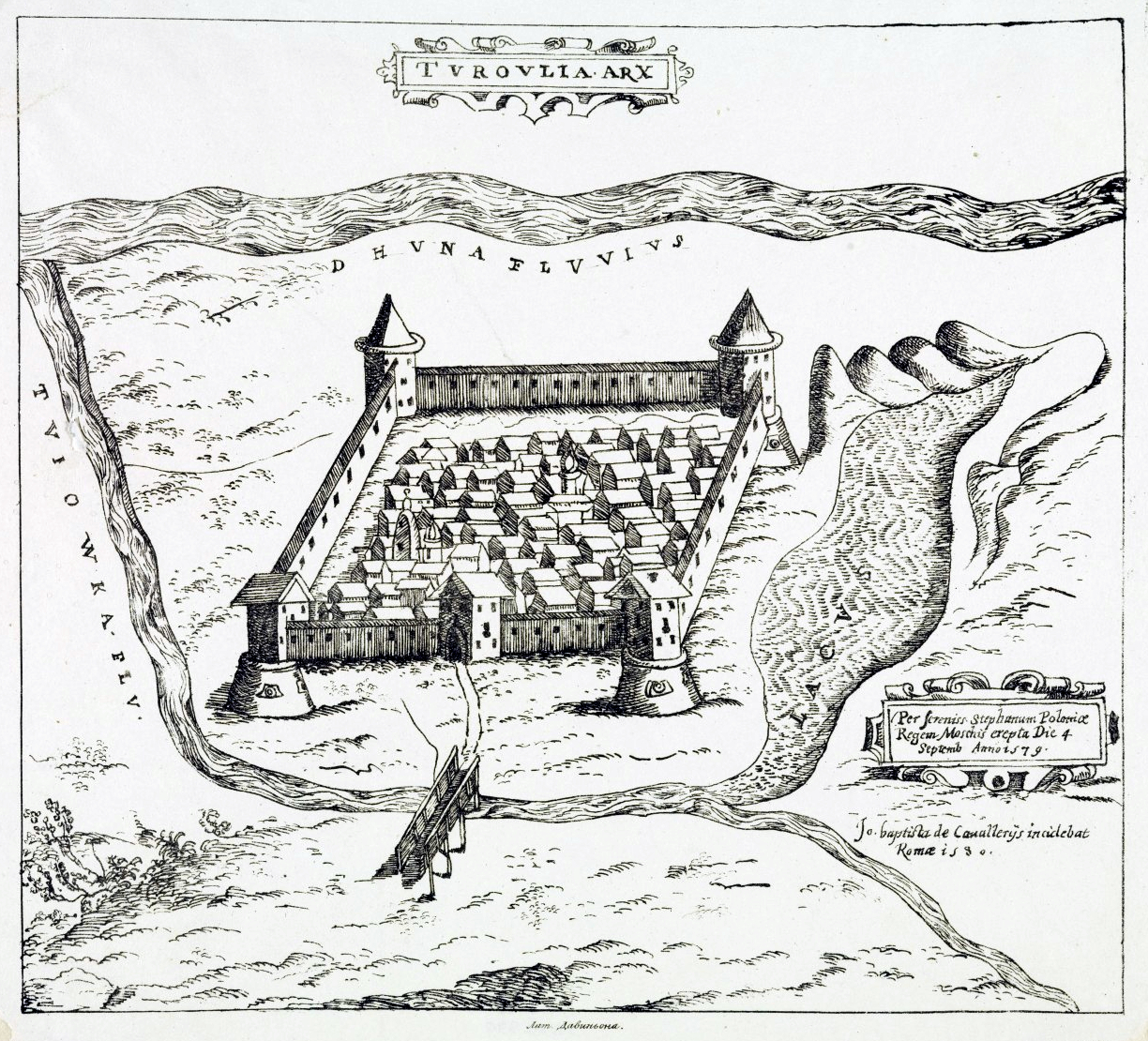 Fortress Turoŭla, Belarus